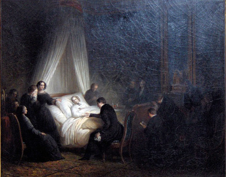 Death of Queen Louise-Marie (Oostende, 11 October 1850) by Joseph Meganck (Q21810613) (1807-1891)